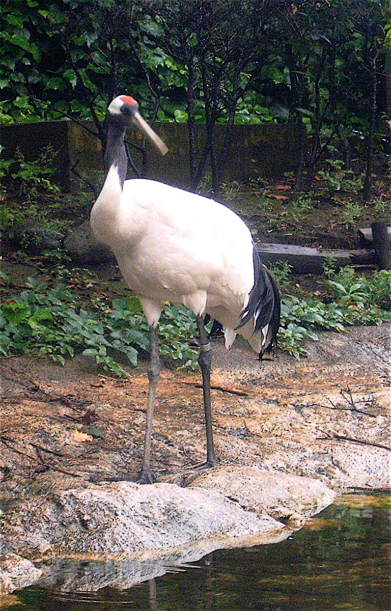 A Red-crowned crane in the Tokyo zoo. Originally uploaded to wiki by User:Sputnikcccp as GFDL-self